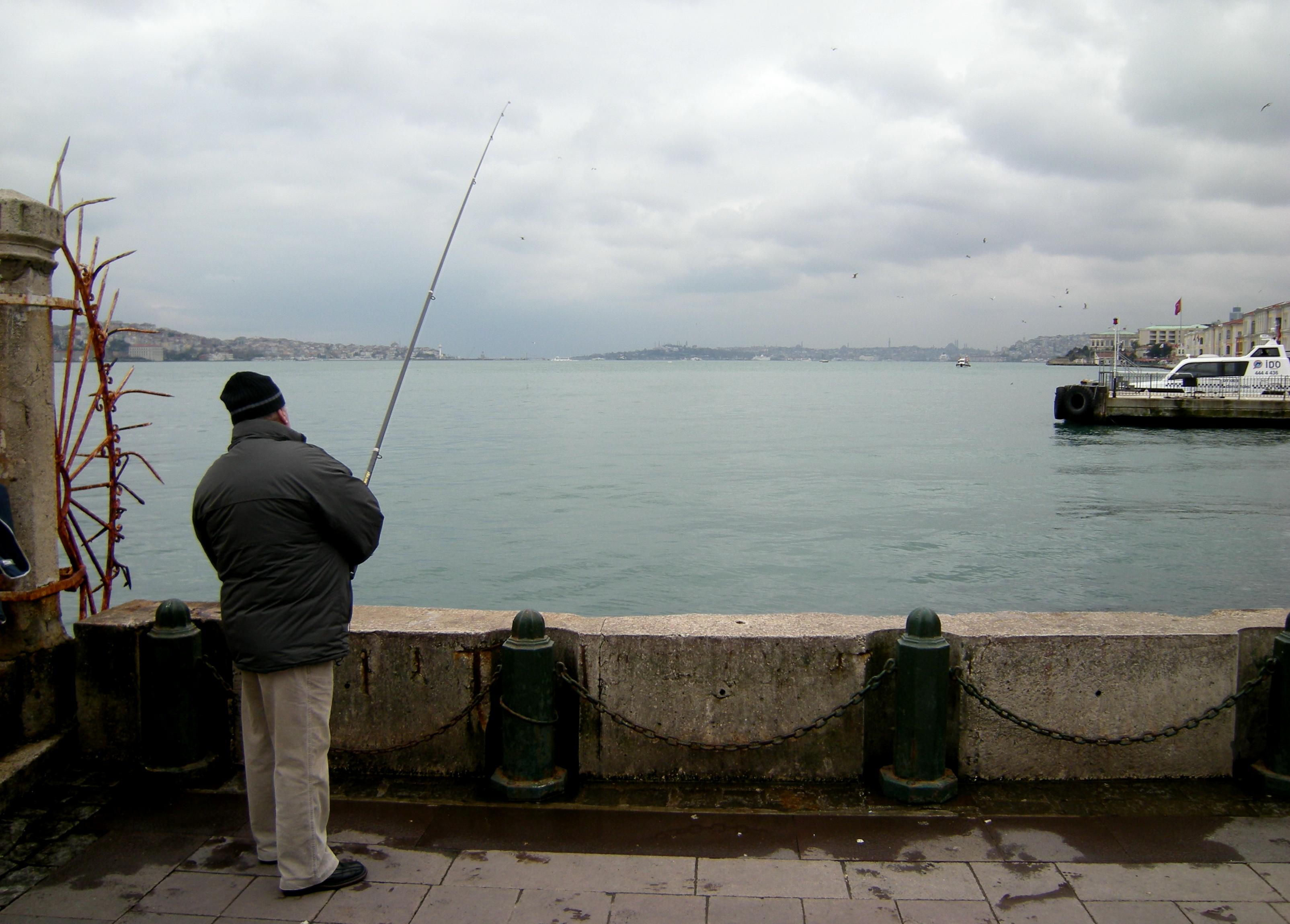 Fisherman at Bosporus, Ortaköy (İstanbul Boğazı)